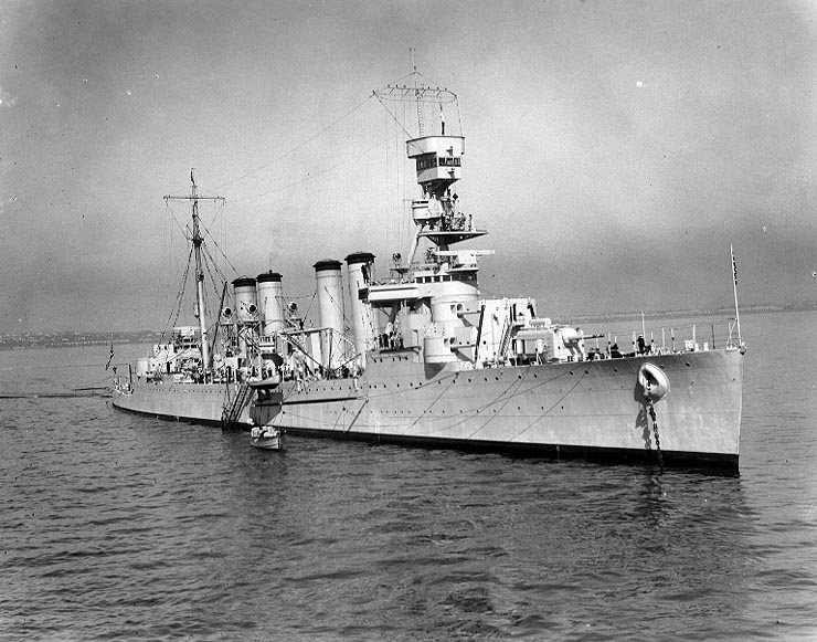 The U.S. Navy light cruiser USS Raleigh (CL-7) anchored in San Diego harbour, California (USA), on 21 October 1933.